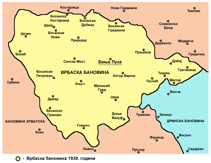 Vrbas banovina (province) of the Kingdom of Yugoslavia in 1939.